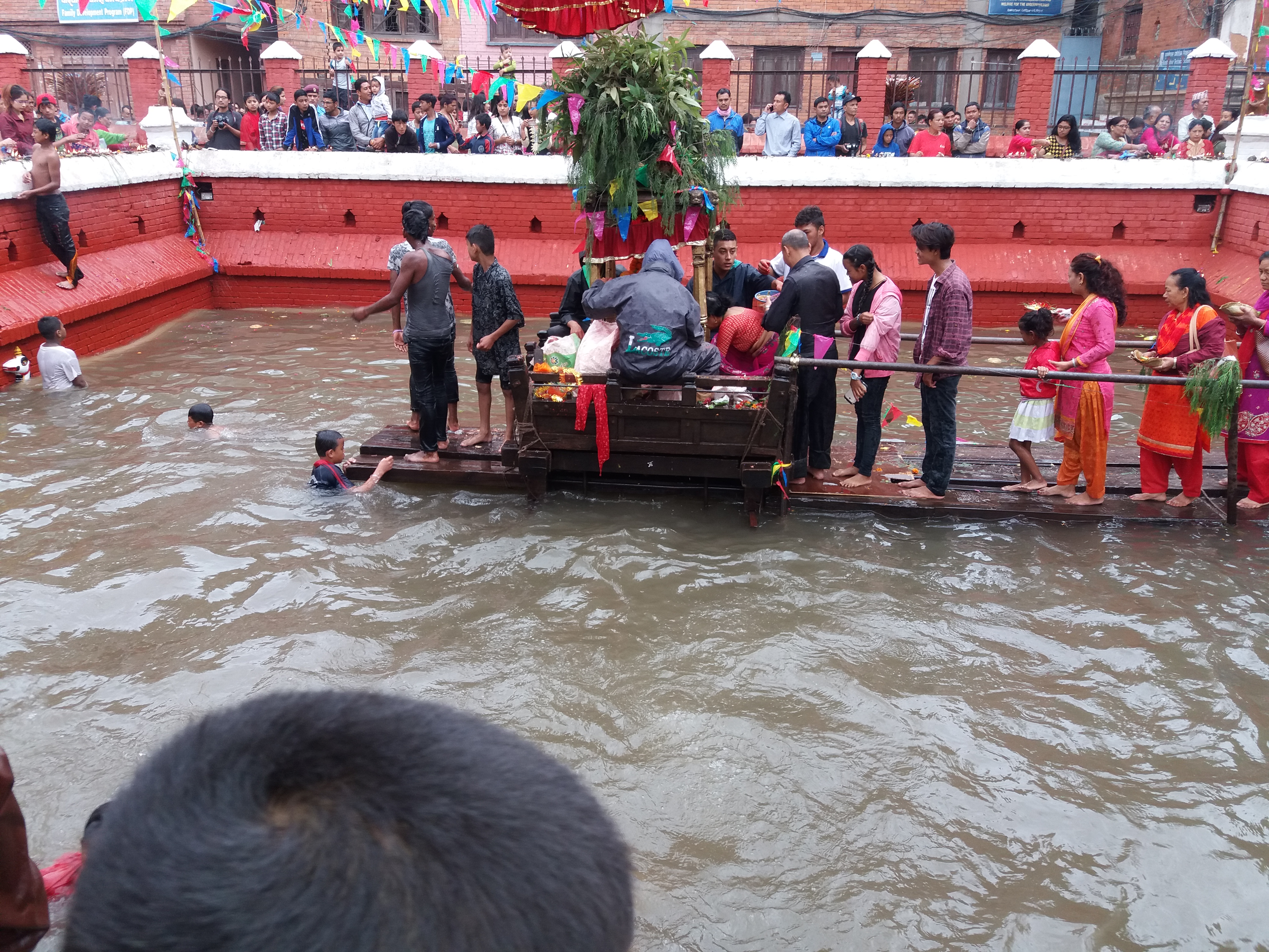 The Kumbheshwor Mela takes place during the festival Janai Purnima (जनै पुर्णिमा). Janai Purnima is a Hindu festival celebrated by almost every family of Nepal. According to Nepali Calendar, this festival falls on the full moon day of Shrawan or Bhadra month. This photo has been taken in the country: Nepal